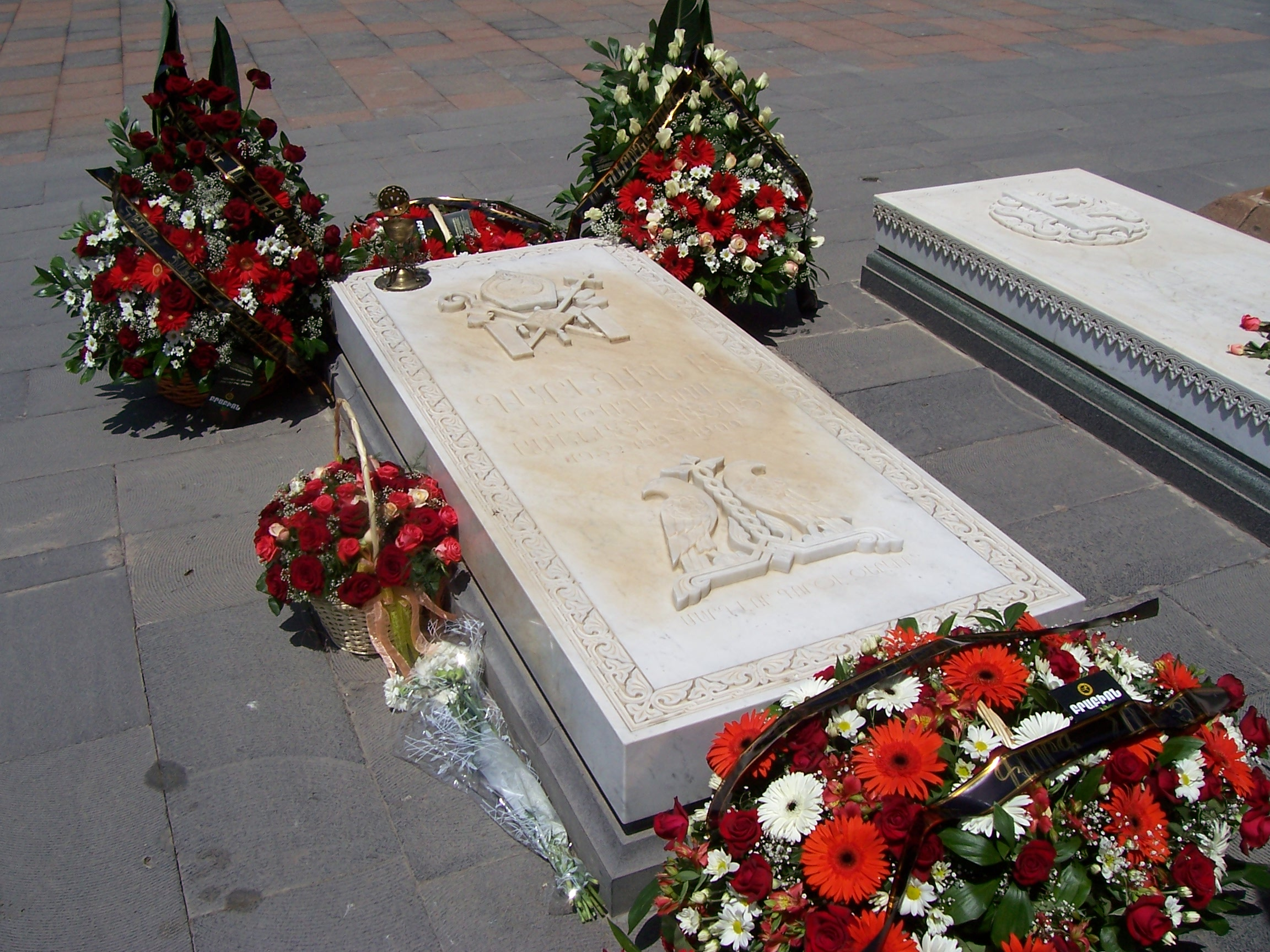 Tomb of All Armenian Catholicos Karekin I of blessed memory